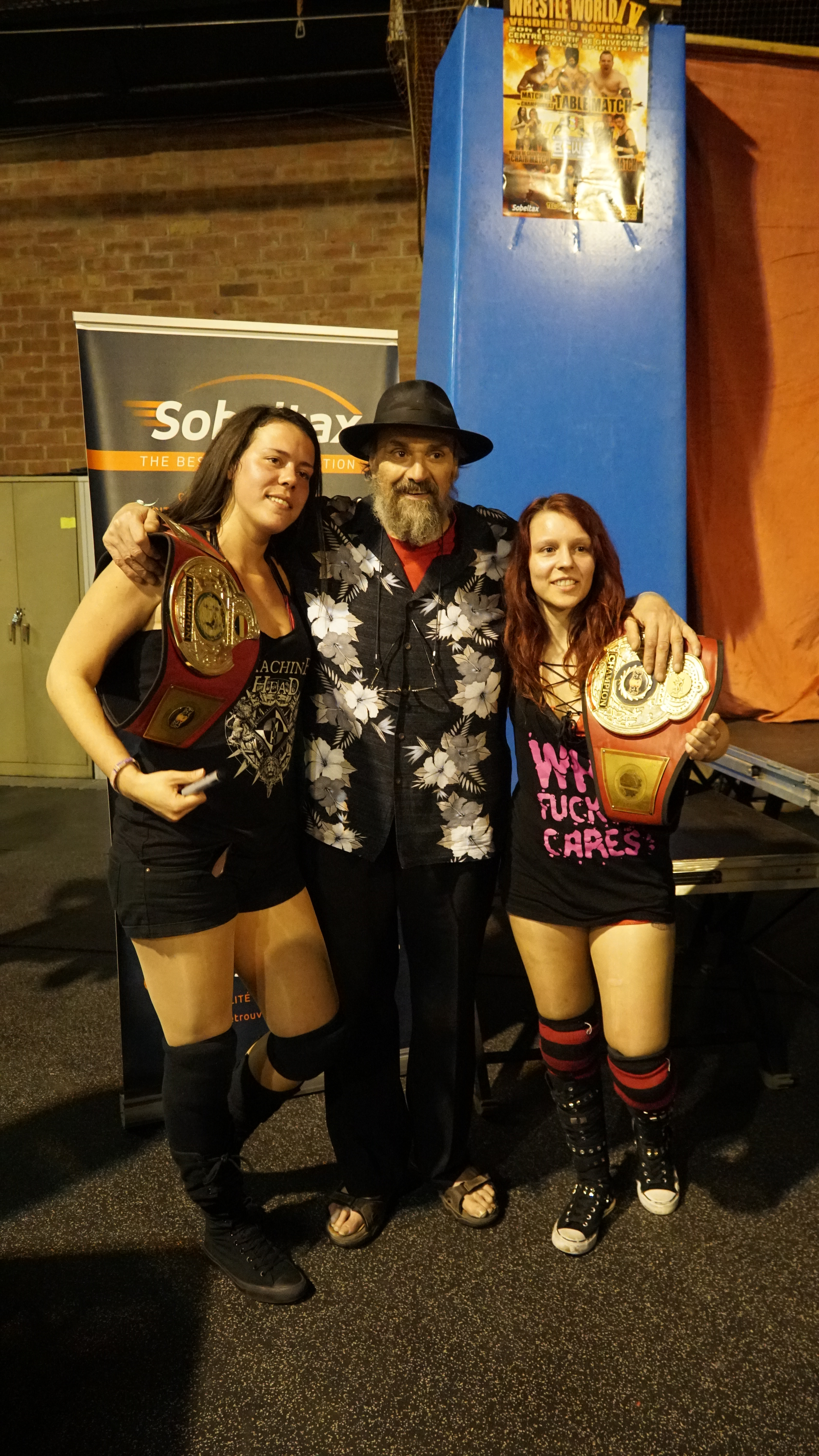 BCWF Wrestling - Wrestle World IV - Divers Photos diverses prisent avant et apres le show. Various photos taken before and after the show. ( BCWF Wrestle World IV a Grivegnee, Liege, le vendredi 9 novembre ! )